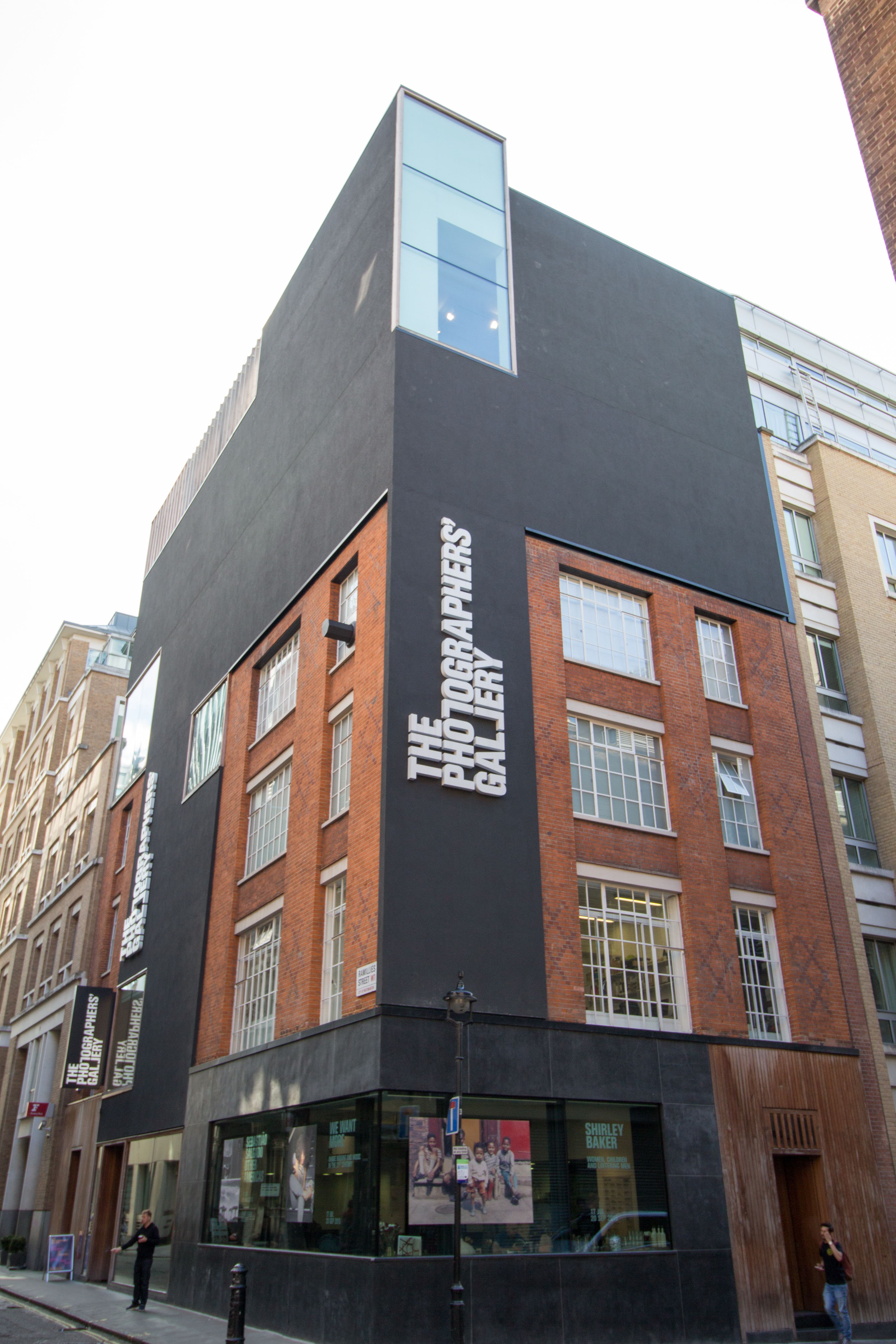 The Photographers' Gallery, London, just off Oxford Street Wikidata has entry Q3522227 with data related to this building.